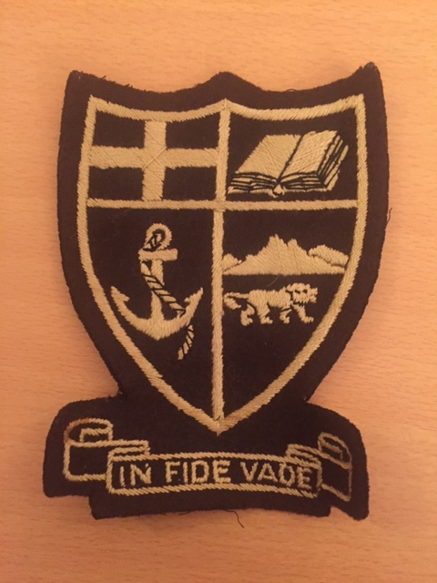 The Limuru Girls High School Badge.